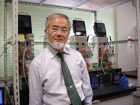 Yoshinori Ōsumi, Honorary Professor of Tokyo Institute of Technology, was given Nobel Prize in Physiology or Medicine on 2016.